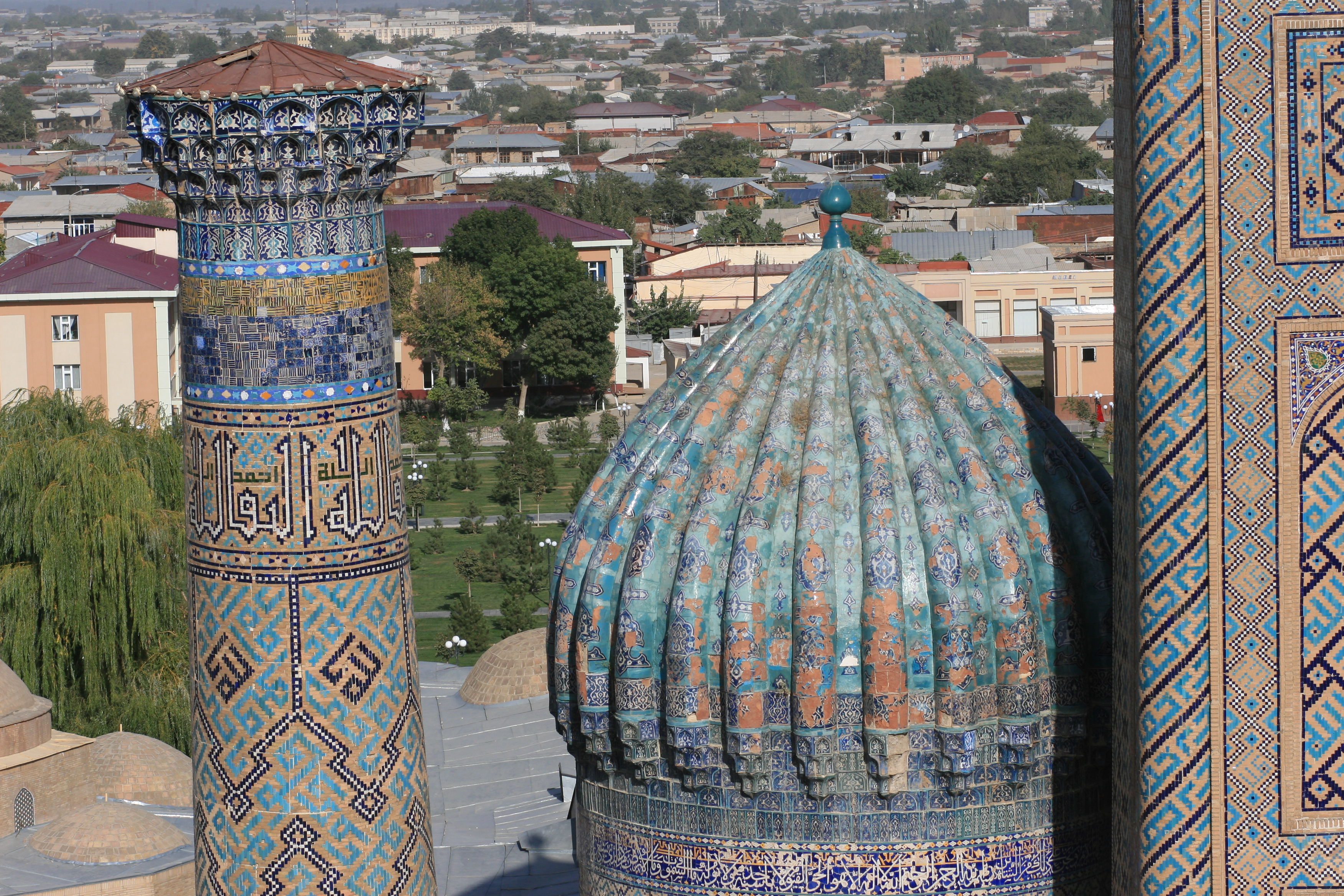 Sher-Dor Madrasa in Samarkand, Uzbekistan